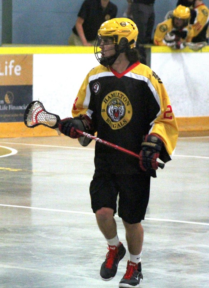 These images of Ontario Junior B Lacrosse Action action during the 2015 season are taken by Devan Mighton.